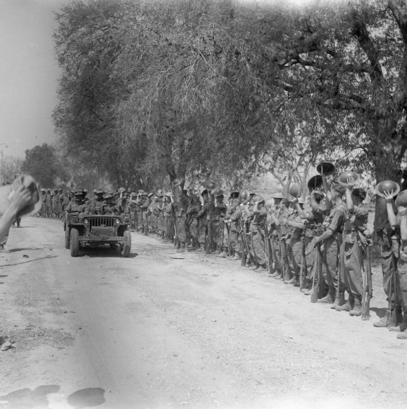 The British Army in Burma 1945 Lieutenant General Sir William Slim and Major General T W Rees, commanding 19th Indian Division, are cheered by troops as they leave Mandalay in a jeep, March 1945.